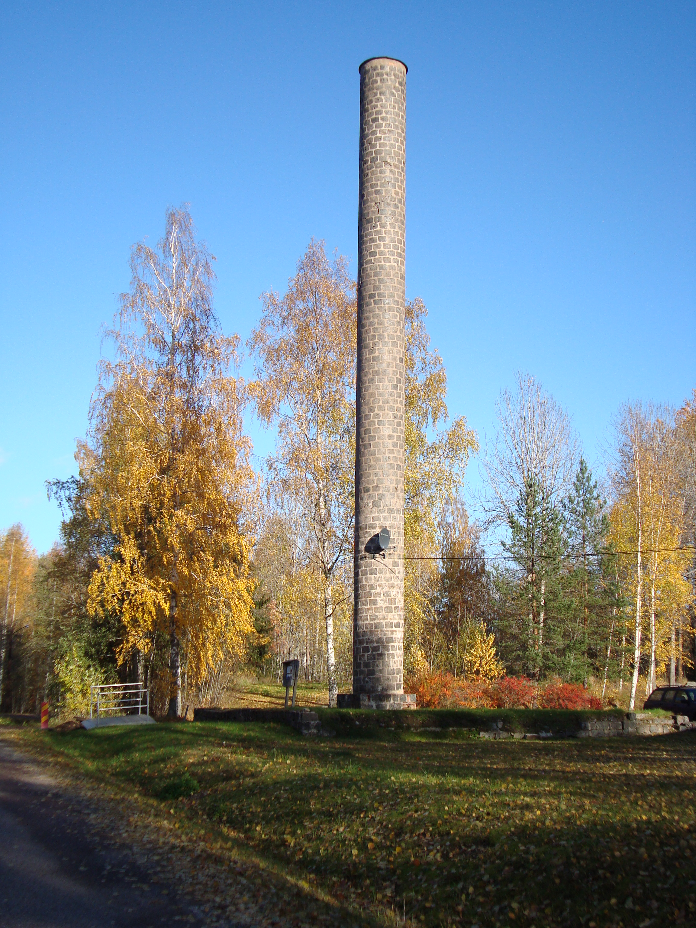 The chimney of the old saw mill (the only remains of the saw mill) in Turbo ('luck settlement'), Hedemora municipality, Sweden